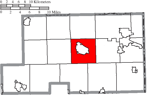 Map of the municipal and township boundaries of Mahoning County, Ohio, United States, as of the 2000 census, with the location of Canfield Township highlighted. Township borders are shown only in unincorporated areas in order to differentiate incorporated and unincorporated areas more clearly.